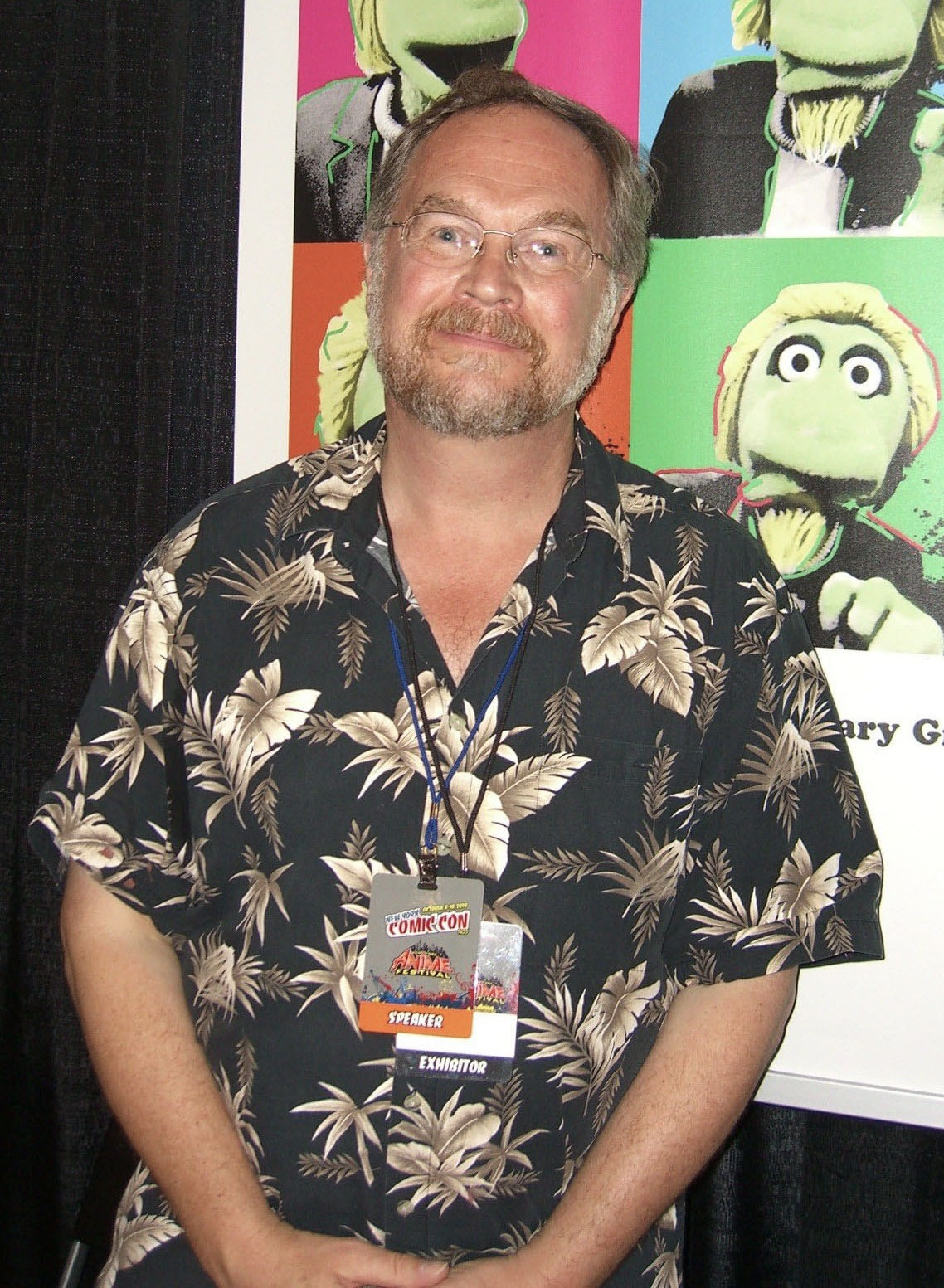 Puppeteer Jim Martin at the New York Comic Convention in Manhattan, October 9, 2010. Photo by Luigi Novi. This photo may be used, modified and published for any purpose, only if a easily visible credit to the photographer is placed near the photo in each instance in which it is used. (See licensing information below.) Publication of this photo without this proper attribution constitute copyright infringement. For more information on my photos, you can contact me here.